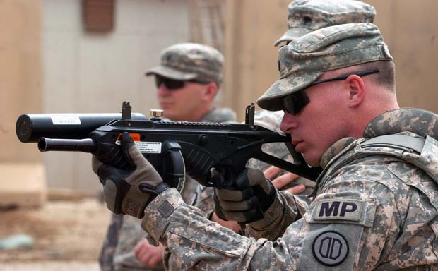 Military Policeman aims a 'less-lethal' weapon. Original caption: "The FN-303 Less-Lethal Launching System is among the many non-lethal systems included in INIWIC training. U.S. Army photo by Spc. Edward Siguenza"